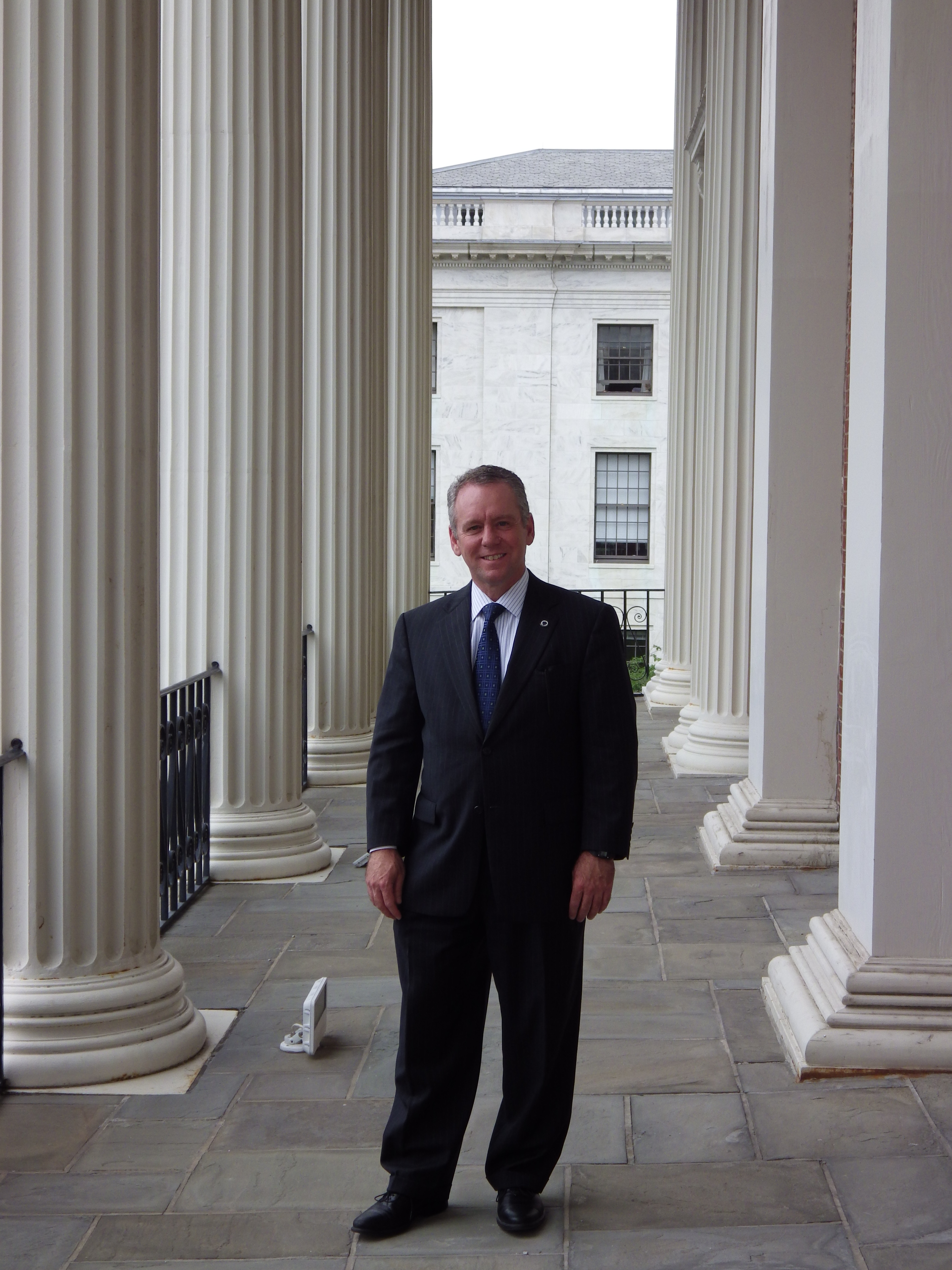 Representative Jeffrey N Roy of Franklin Massachusetts standing on the MA State House Balcony